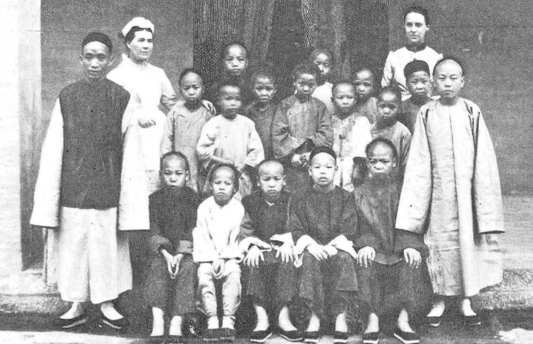 from Grace Stotts memoir in 1897. Teacher and students, Stott left and Miss Bardsley at right. The book notes that the front six and converted and three are preachers (unpaid)